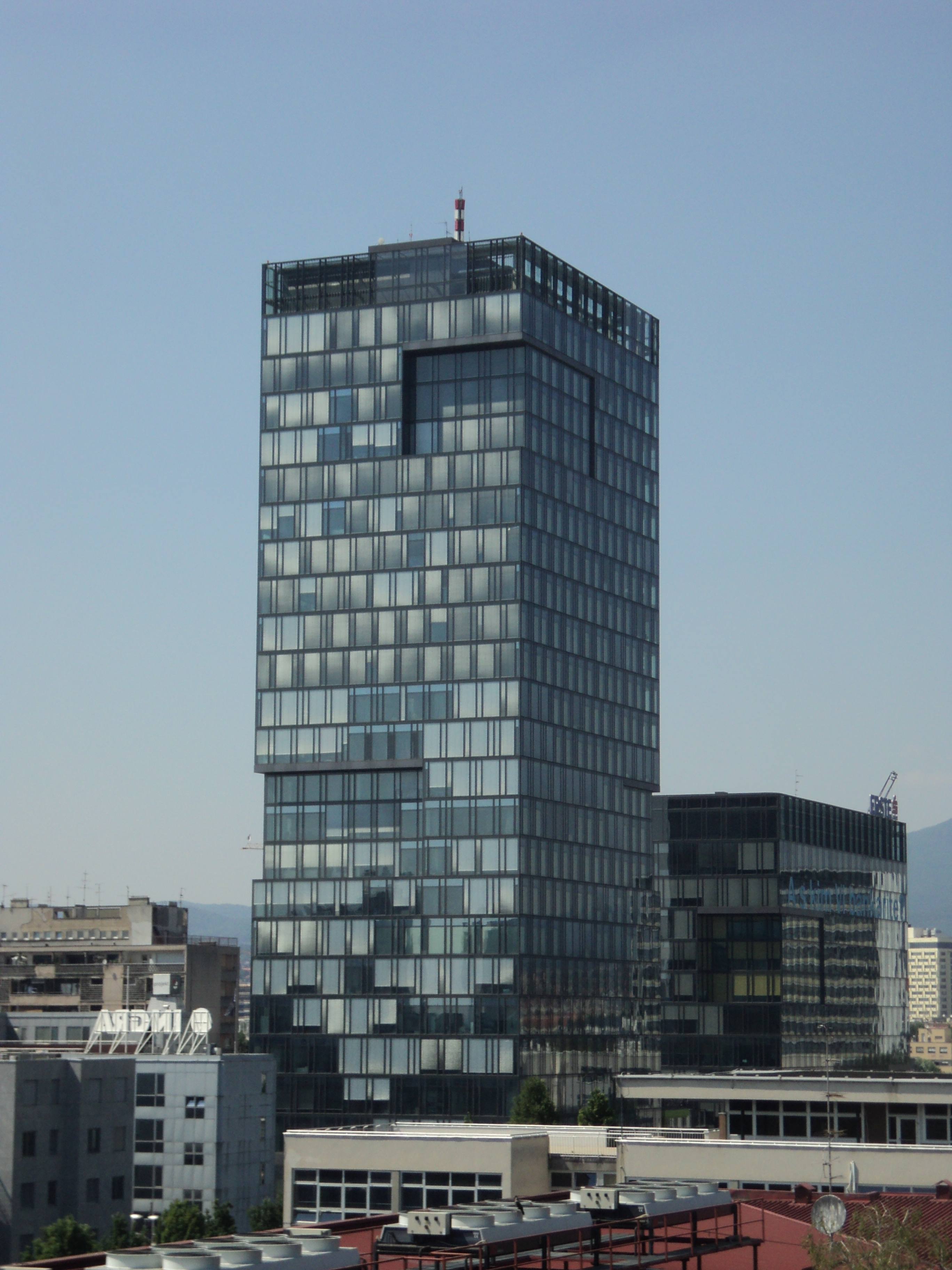 Eurotower I in Zagreb.